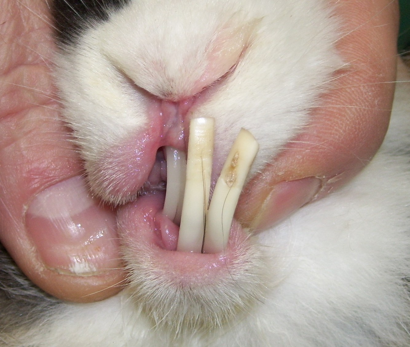 Bradygnathia superior in a rabbit